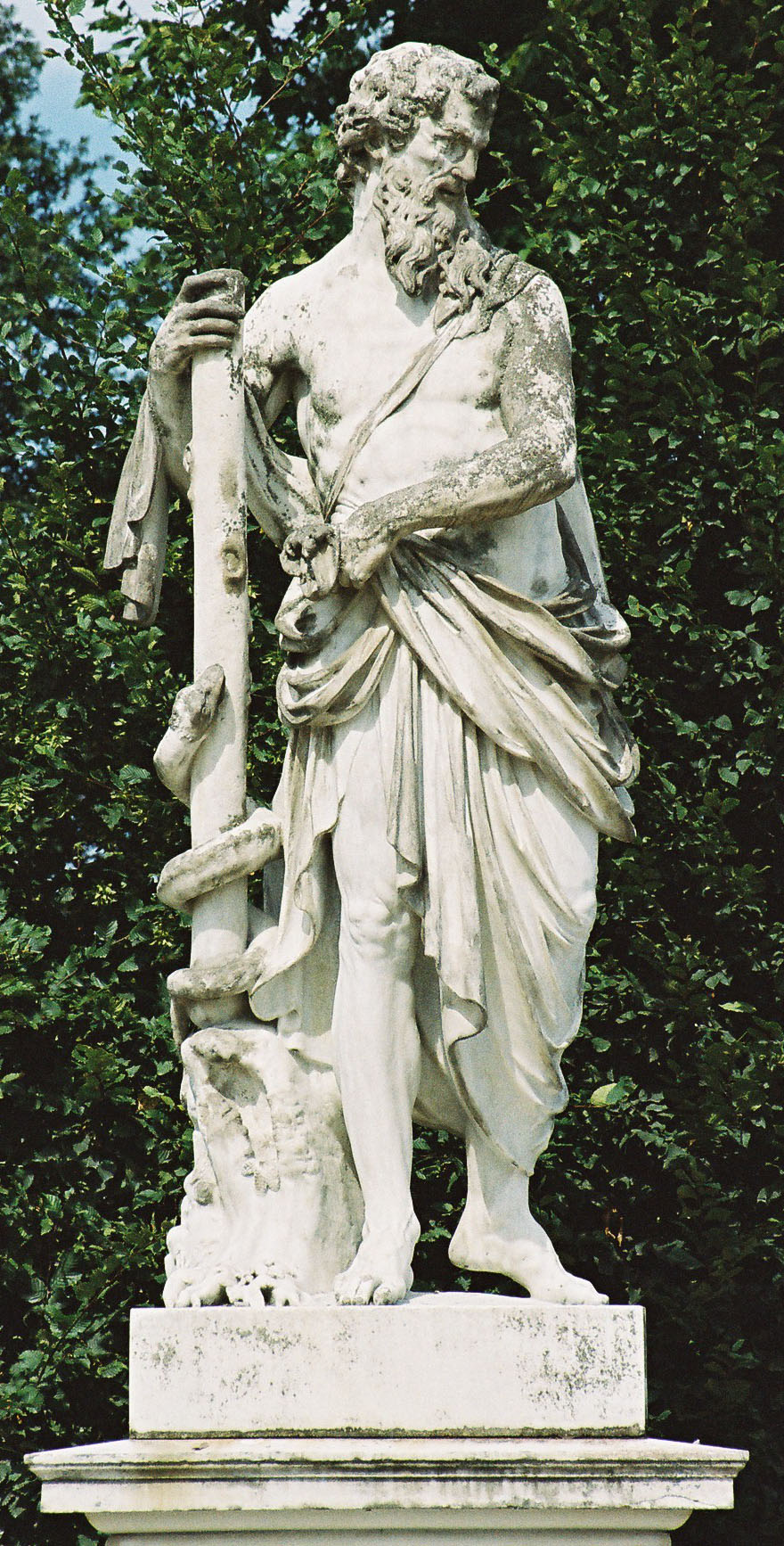 Vienna, Schönbrunn gardens, statue Asclepius